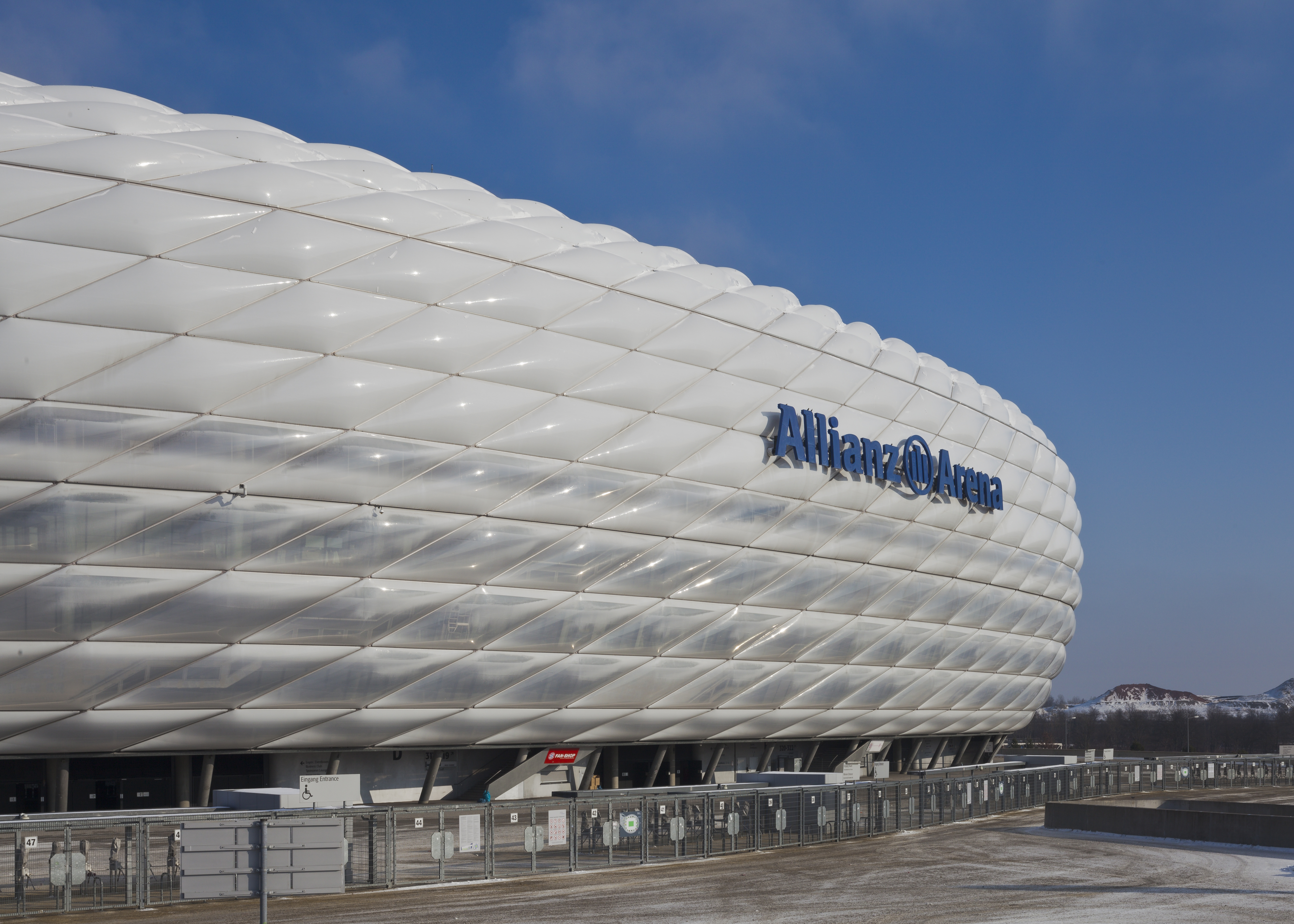 Allianz Arena, Munich, Germany